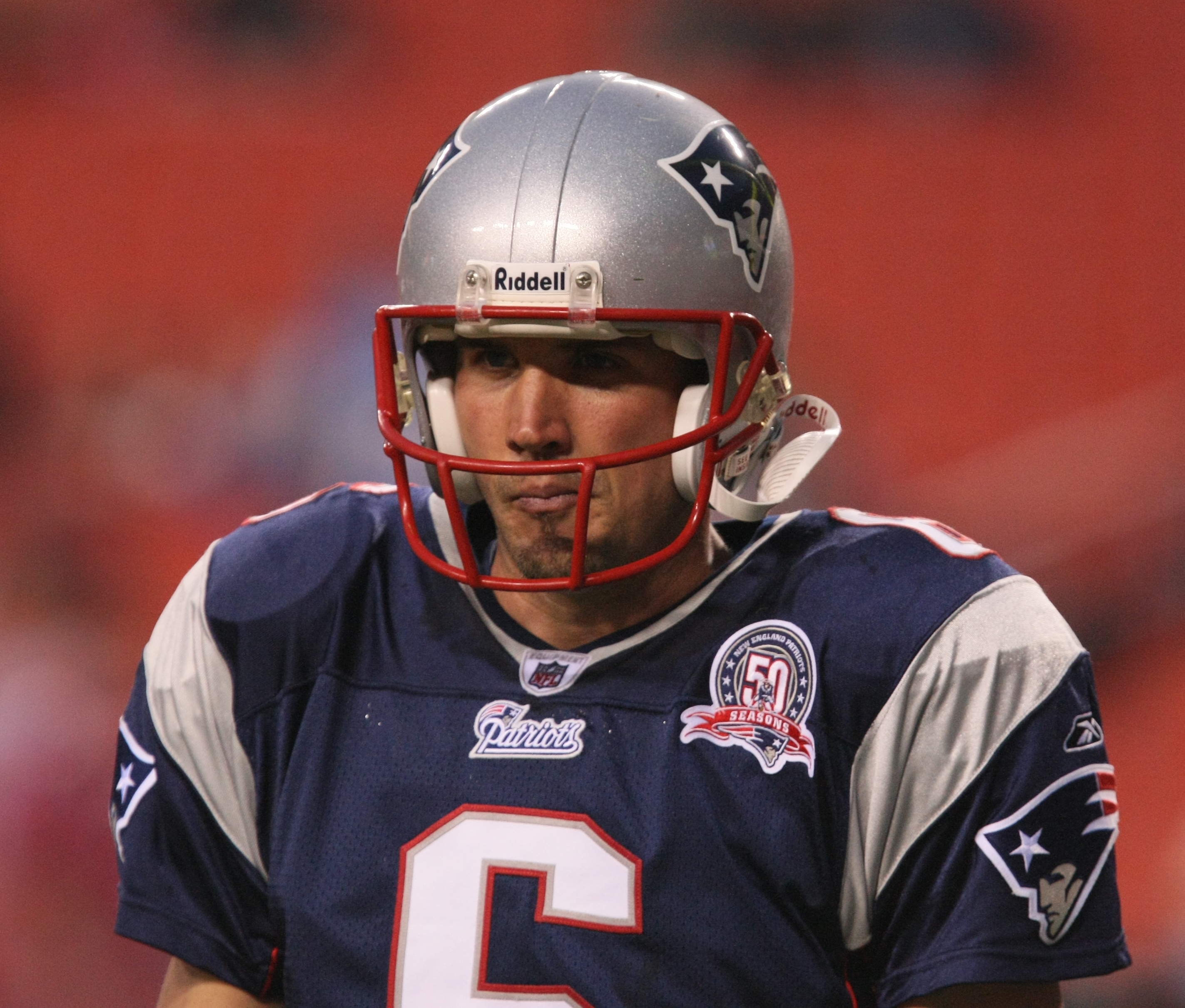 New England Patriots at Washington Redskins 08/28/09